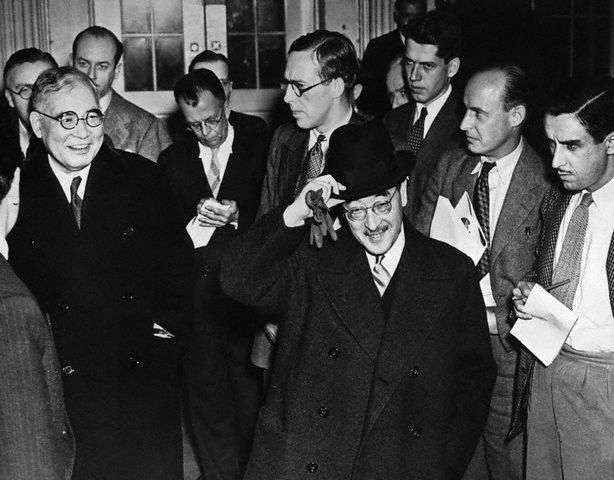 Japanese Ambassador Kichisaburō Nomura(1877–1964, left) and Special Envoy Saburō Kurusu(1886–1954, right) were interviewed by the press after meeting with President Franklin Roosevelt(1882-1845) at the White House on 17 November 1941.